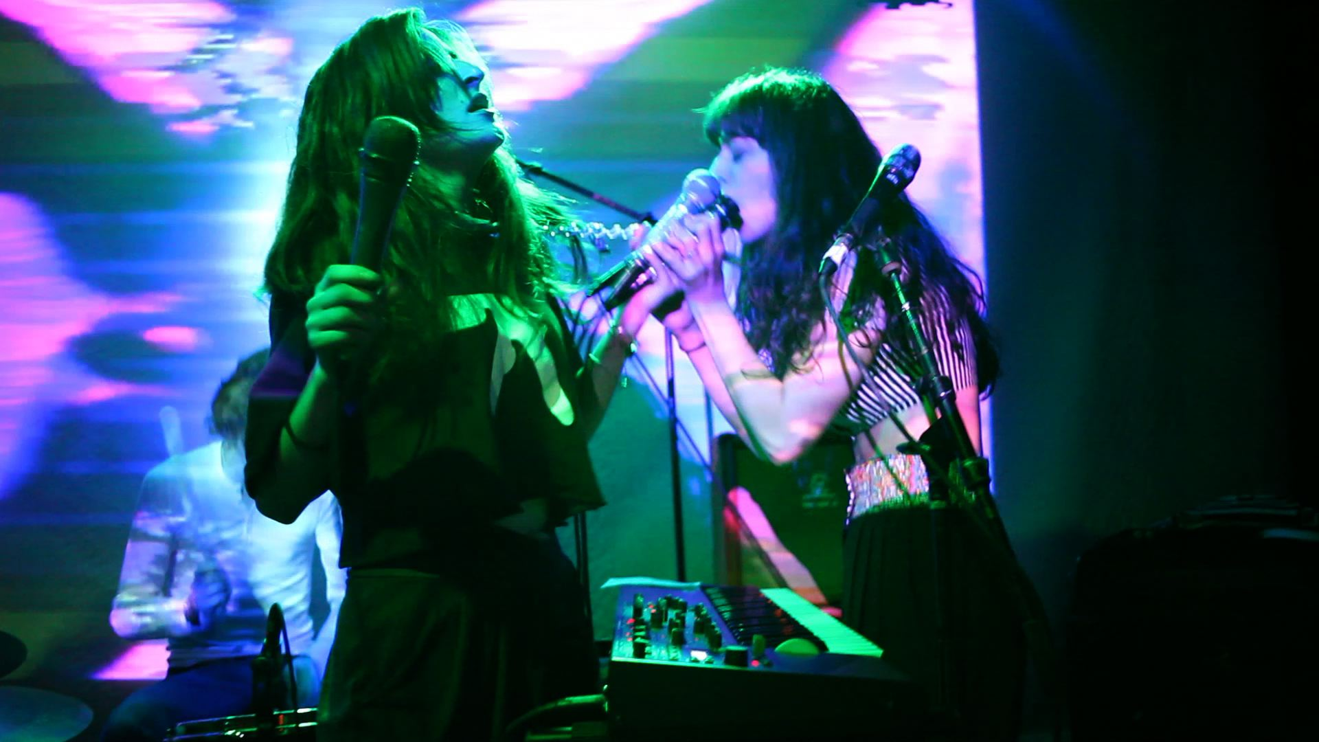 zambri live photo